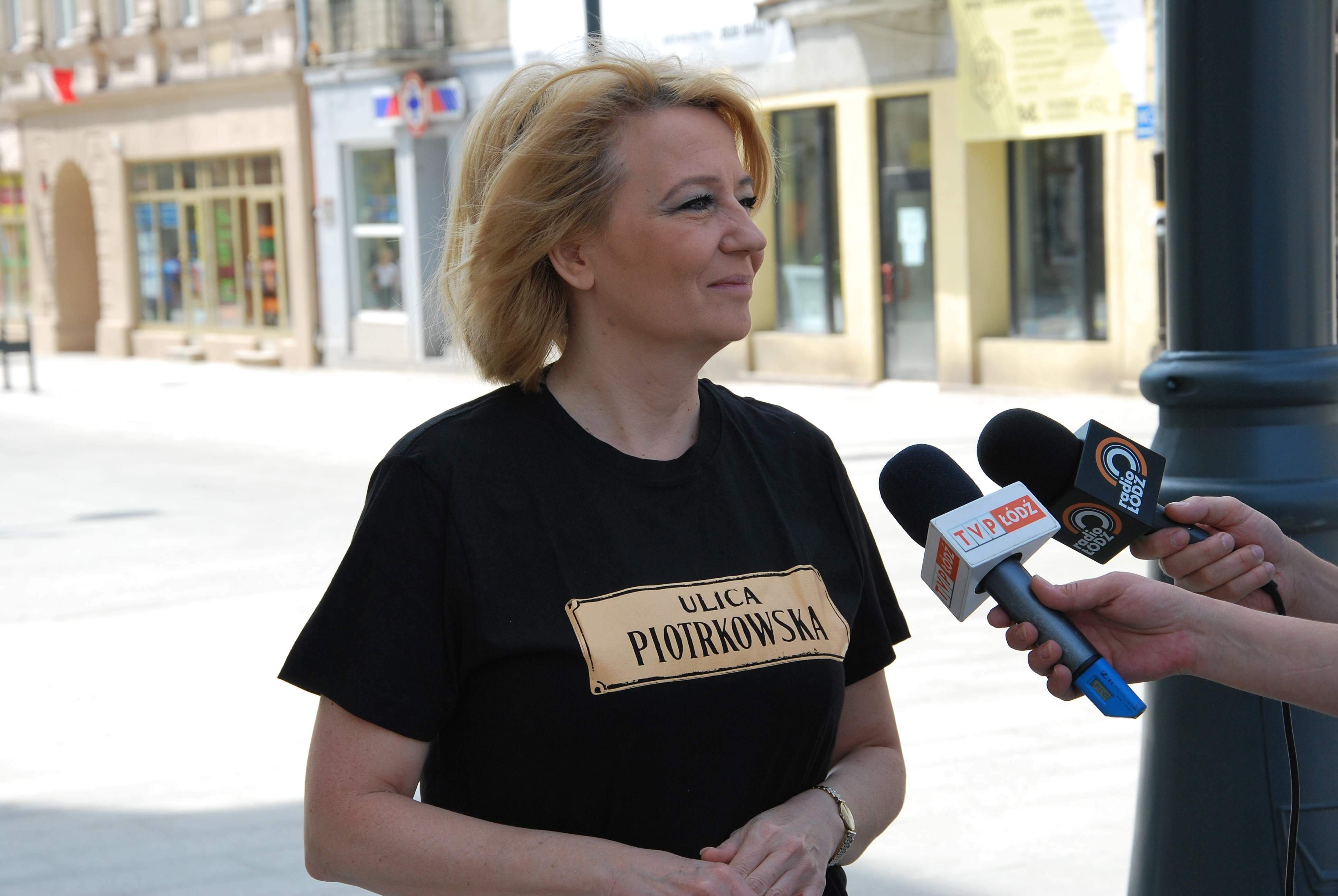 Mayor of Łódź, Hanna Zdanowska at Piotrkowska Street